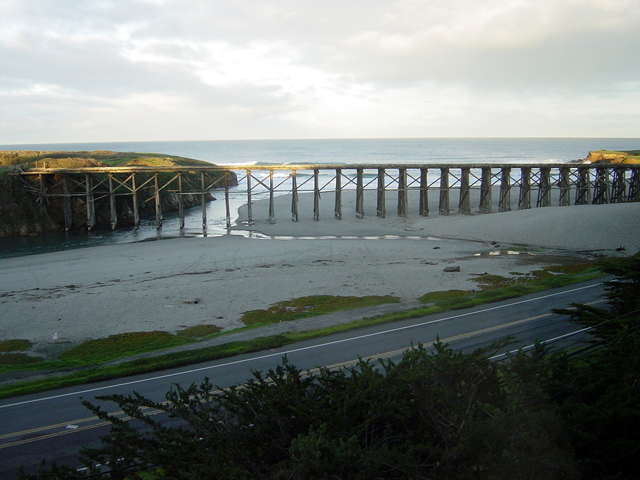 Fort Bragg Bridge, Fort Bragg, California